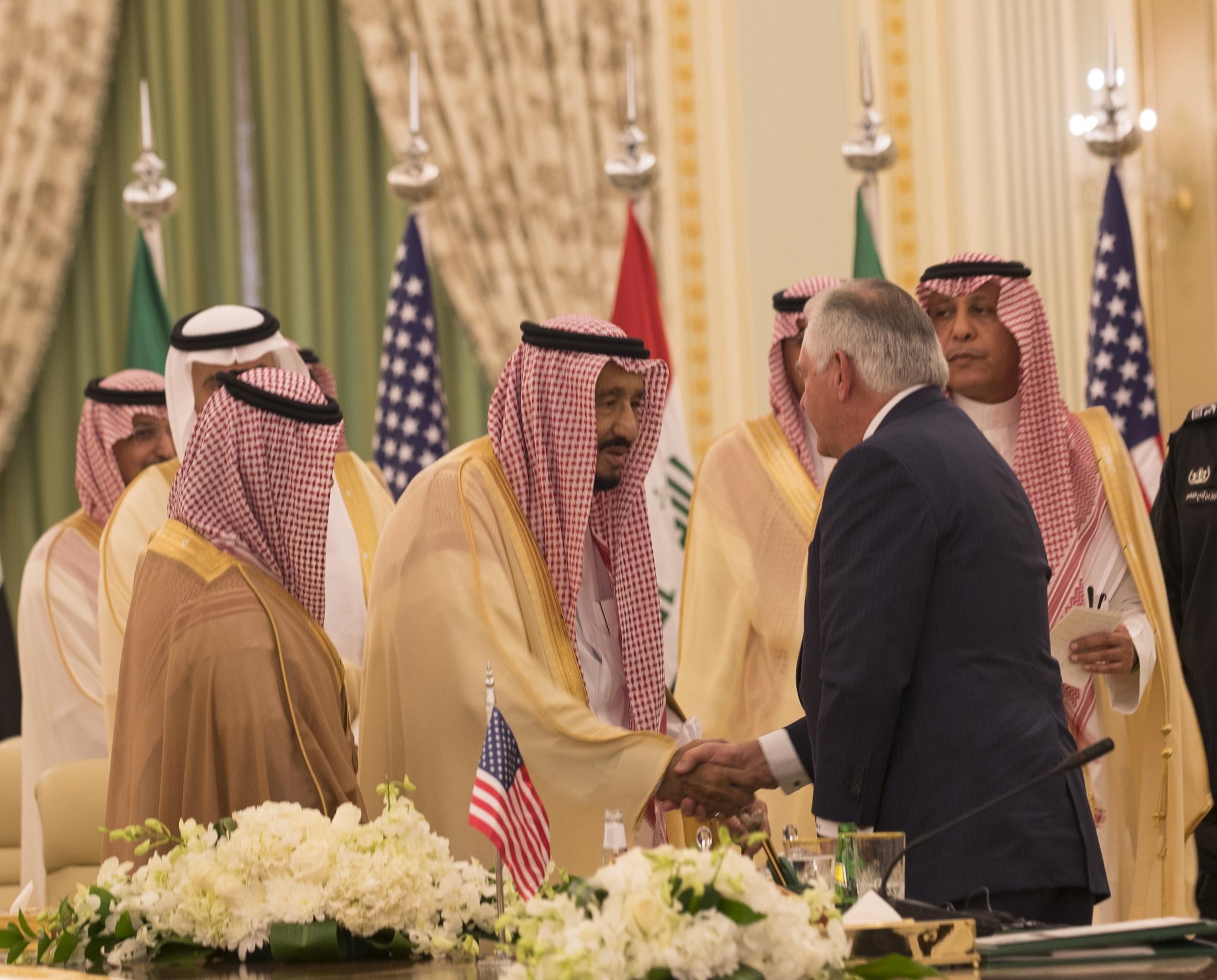 U.S. Secretary of State Rex Tillerson greets Saudi King Salman following the Saudi Arabia-Iraq Coordination Committee Meeting at the Saudi Royal Court in Riyadh, Saudi Arabia, on October 22, 2017. [State Department Photo/ Public Domain]